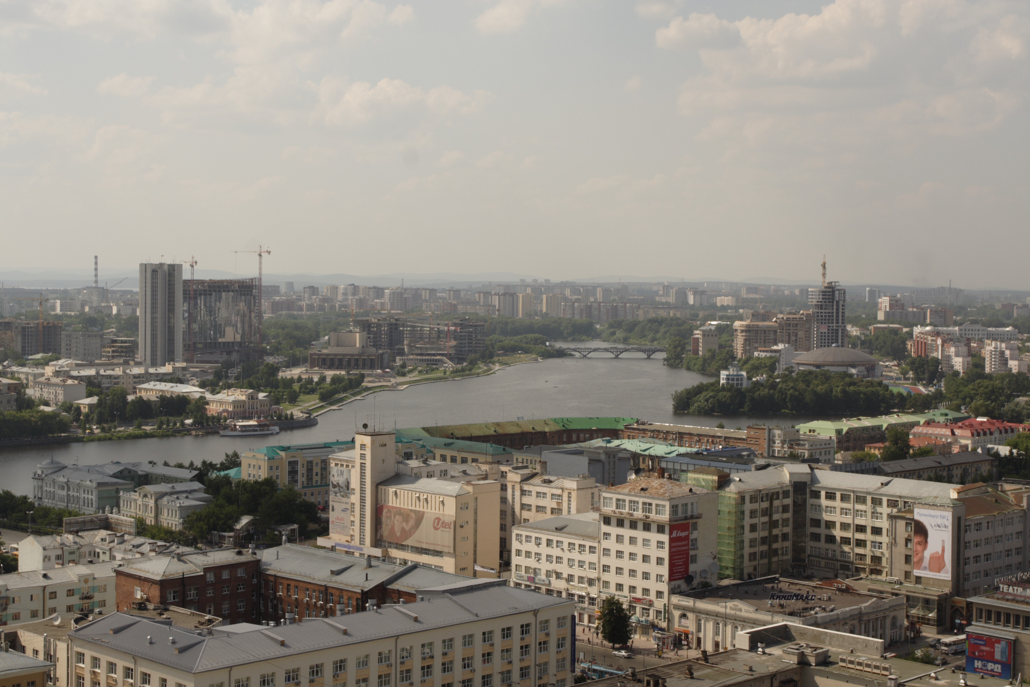 View over the Iset river in Yekaterinburg, Russia. Construction site of Yekaterinburg City on the upper left near the IsetEkaterinburg from above